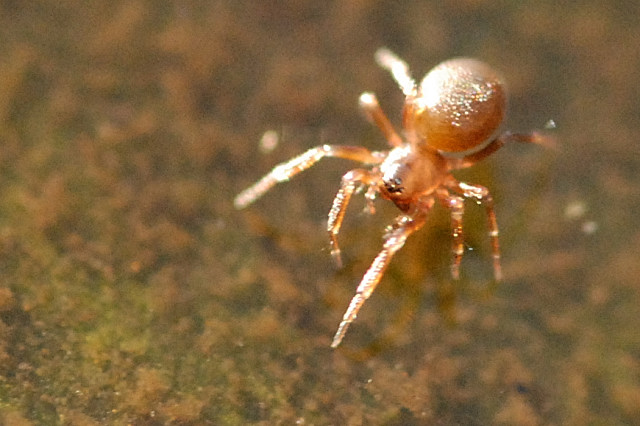 Gonatium rubens from Commanster, Belgian High Ardennes .